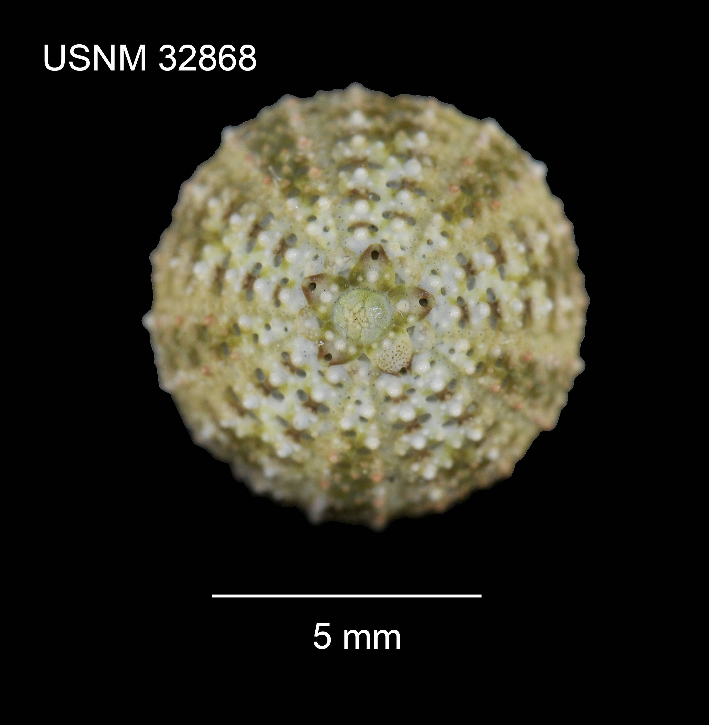 PRESERVED_SPECIMEN; Preparations: Dry; Pleurechinus hawaiiensis A.Agassiz & H.L.Clark, 1907; Individual count: 1; Type status: SYNTYPE; Identified by: Agassiz, Alexander E.; Clark, Hubert L.; Event date: 19020603T00:00:00Z; Additional description: dorsal